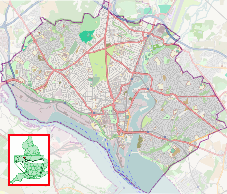 This map may be incomplete, and may contain errors. Don't rely solely on it for navigation.